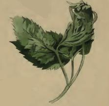 Stainton’s Natural History of the Tineina (1855–1873): Epermenia falciformis leaf of Aegopodium podagraria twisted by larva